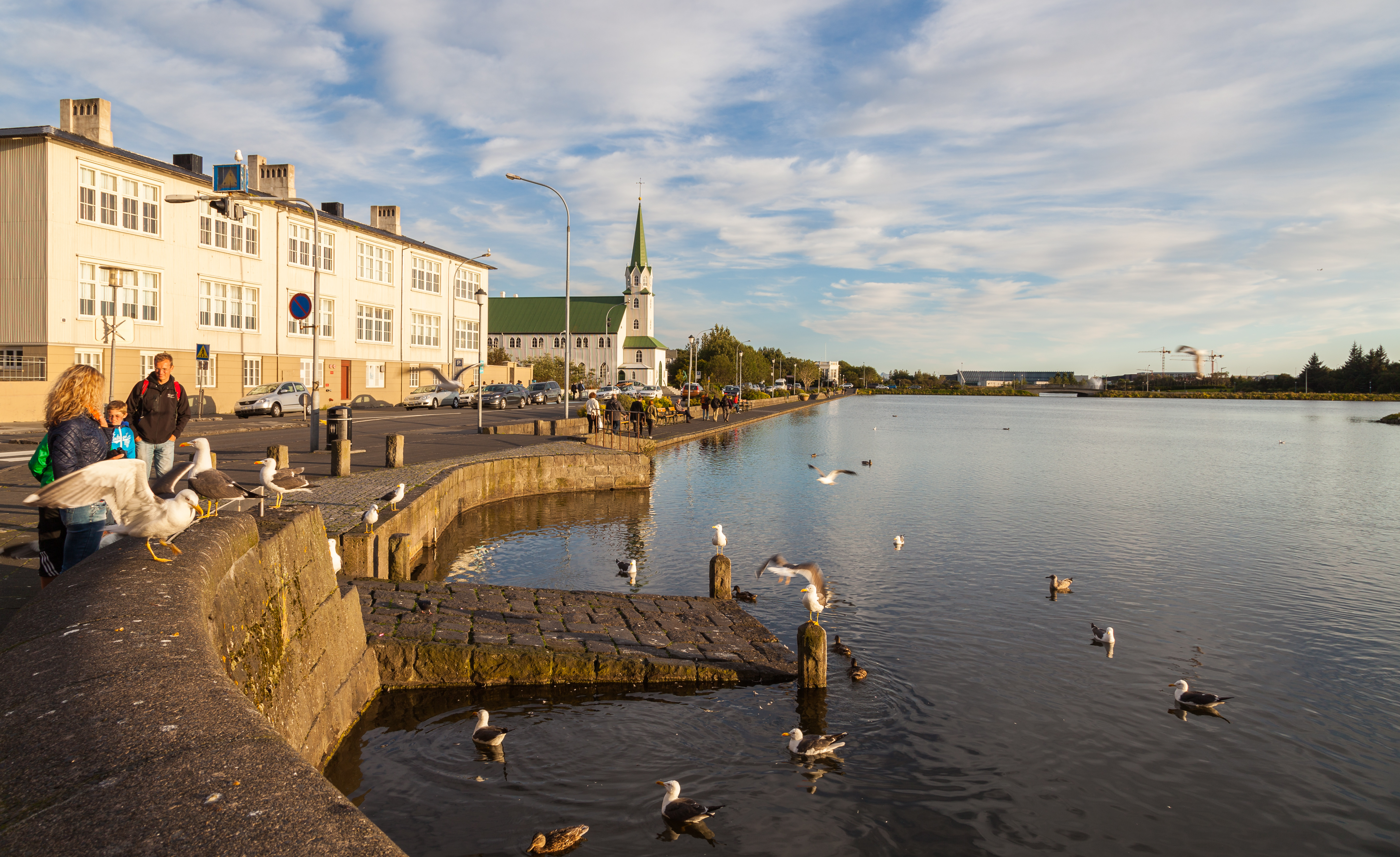 Tjörnin lake, Reykjavik, Capital Region, Iceland